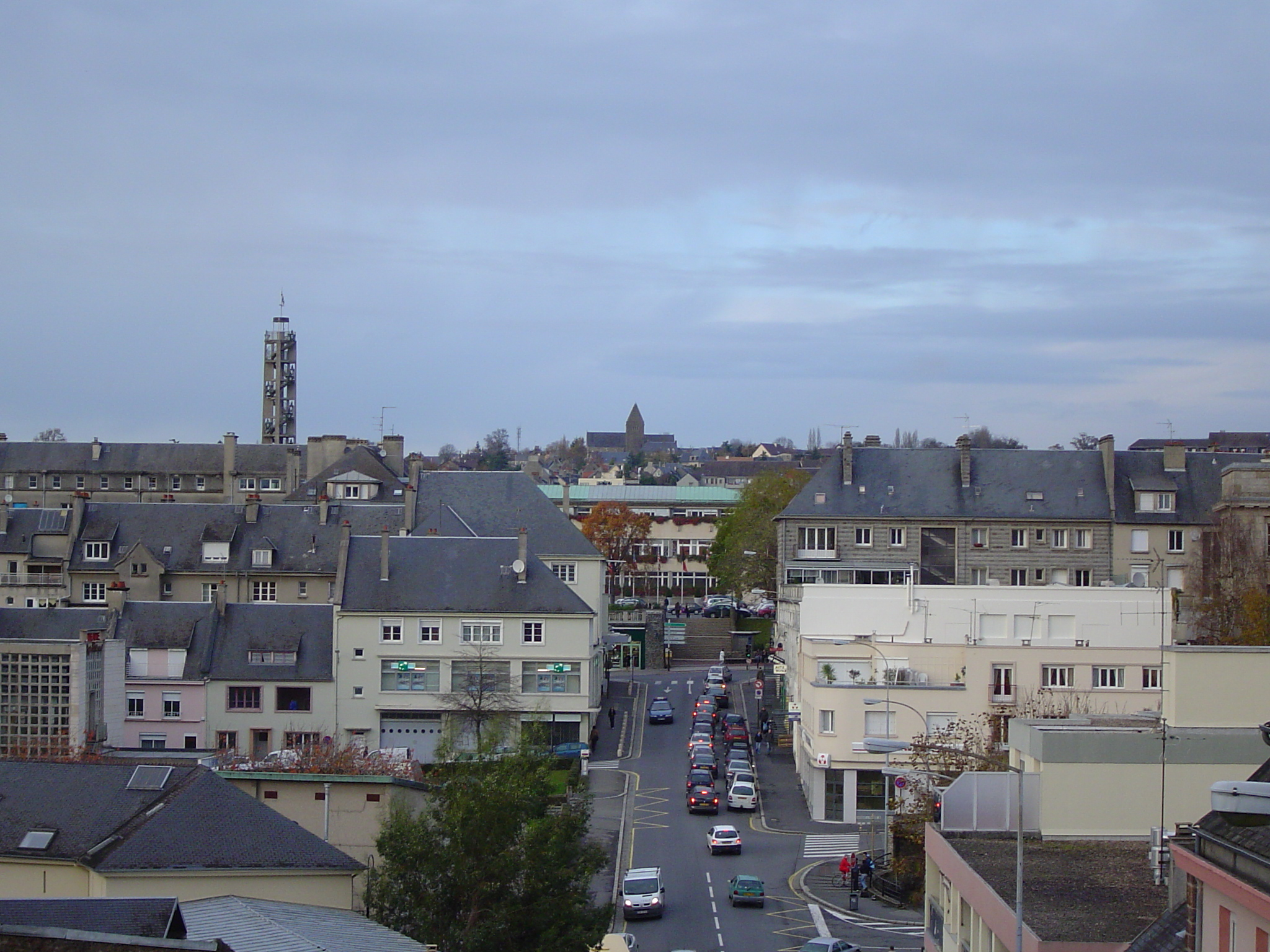 a global view of Saint-Lô